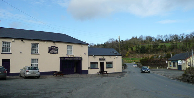 The Park View A pub and restaurant to the west of Shillelagh by the R725.